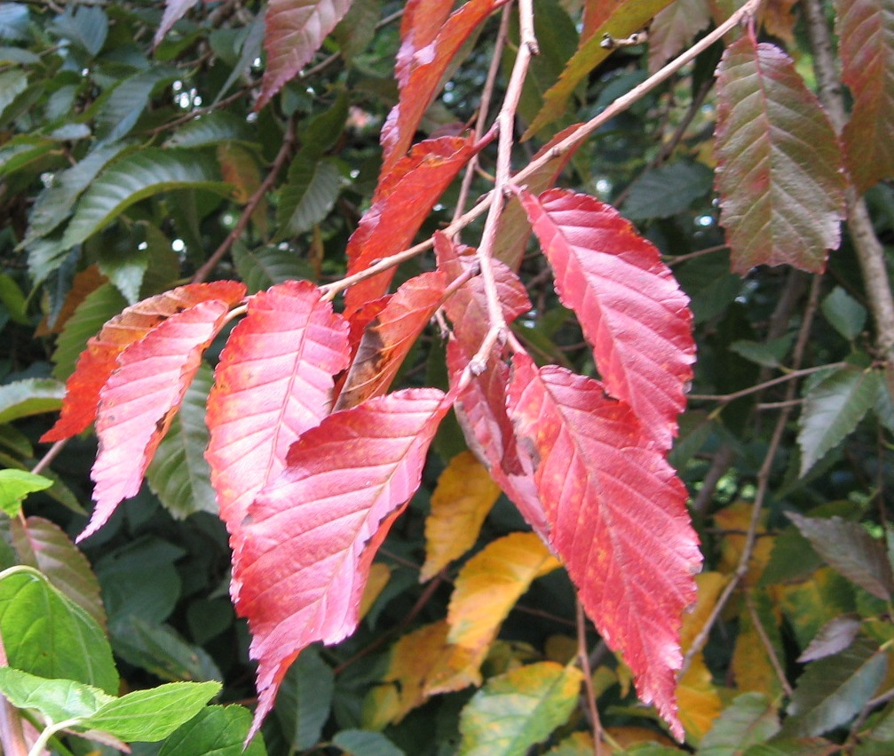 Ulmus japonica 'Jacan' in the Hilliers Arboretum, autumn foliage; Photo by R. Nijboer